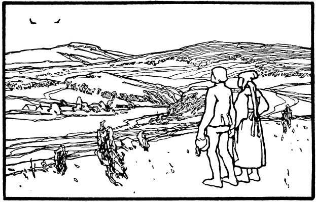 Illustration by Otto Ubbelohde to the fairy tale Jorinda and Joringel